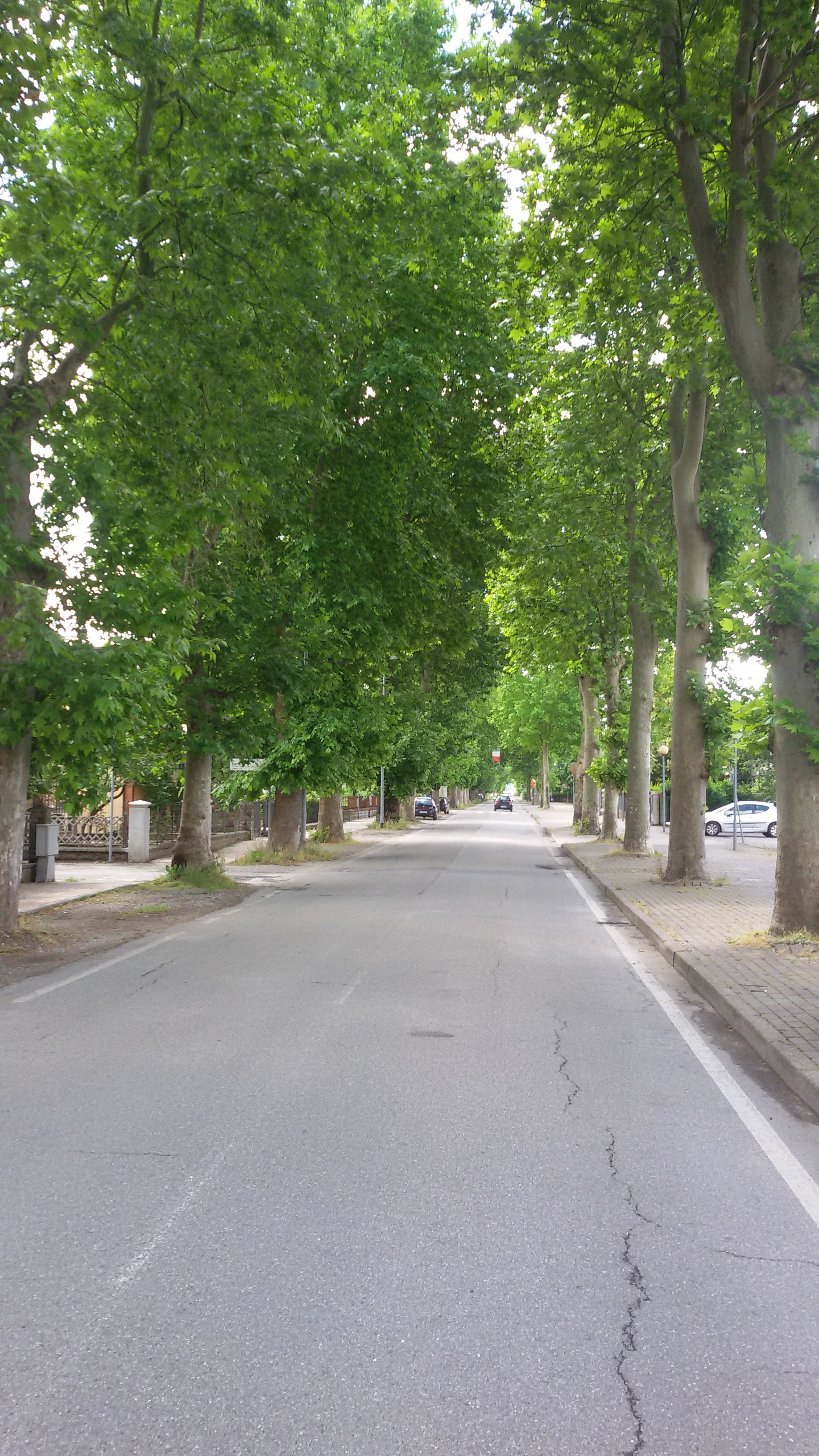 San Secondo Road